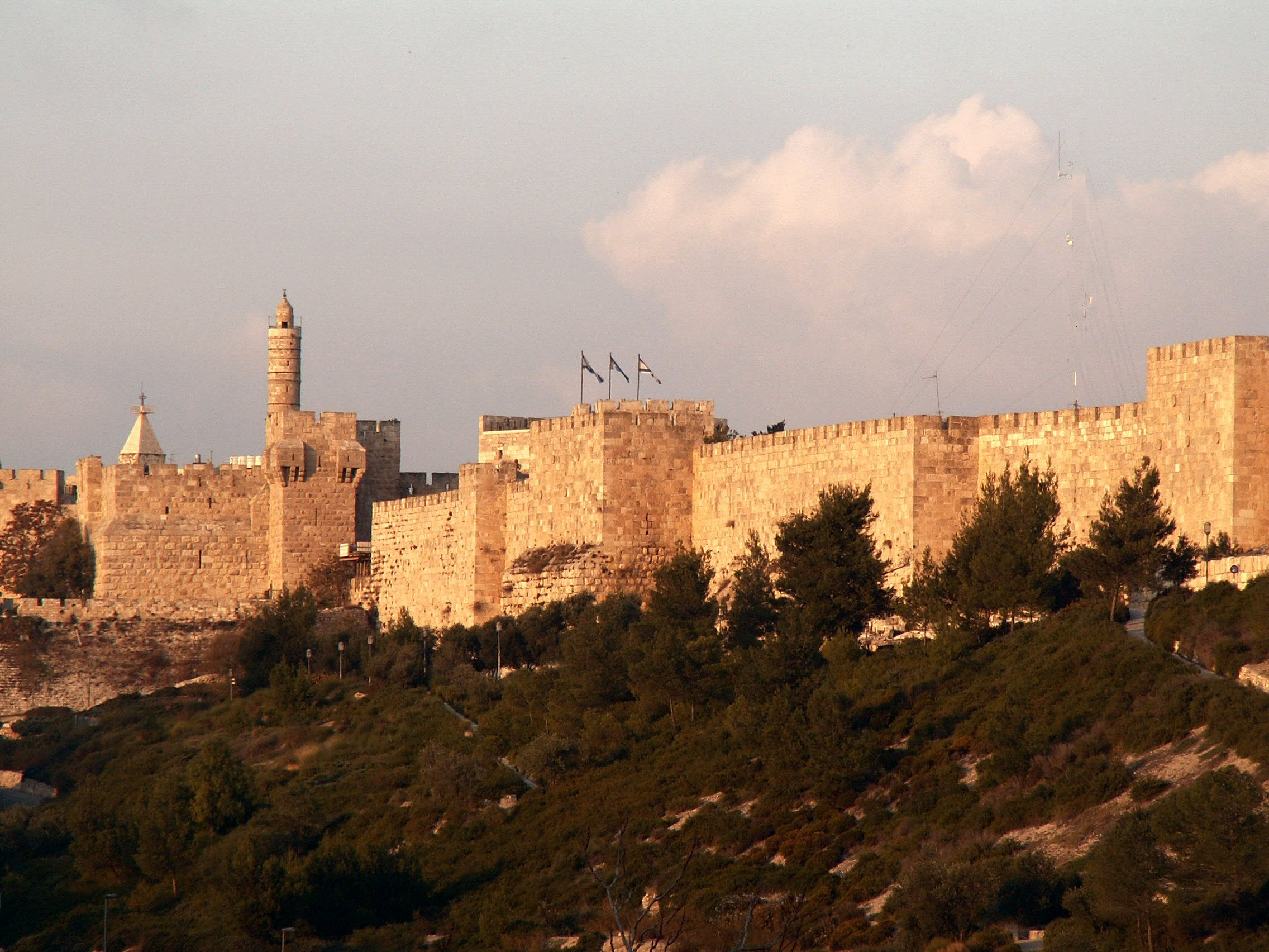 Jerusalem, city wall (west)